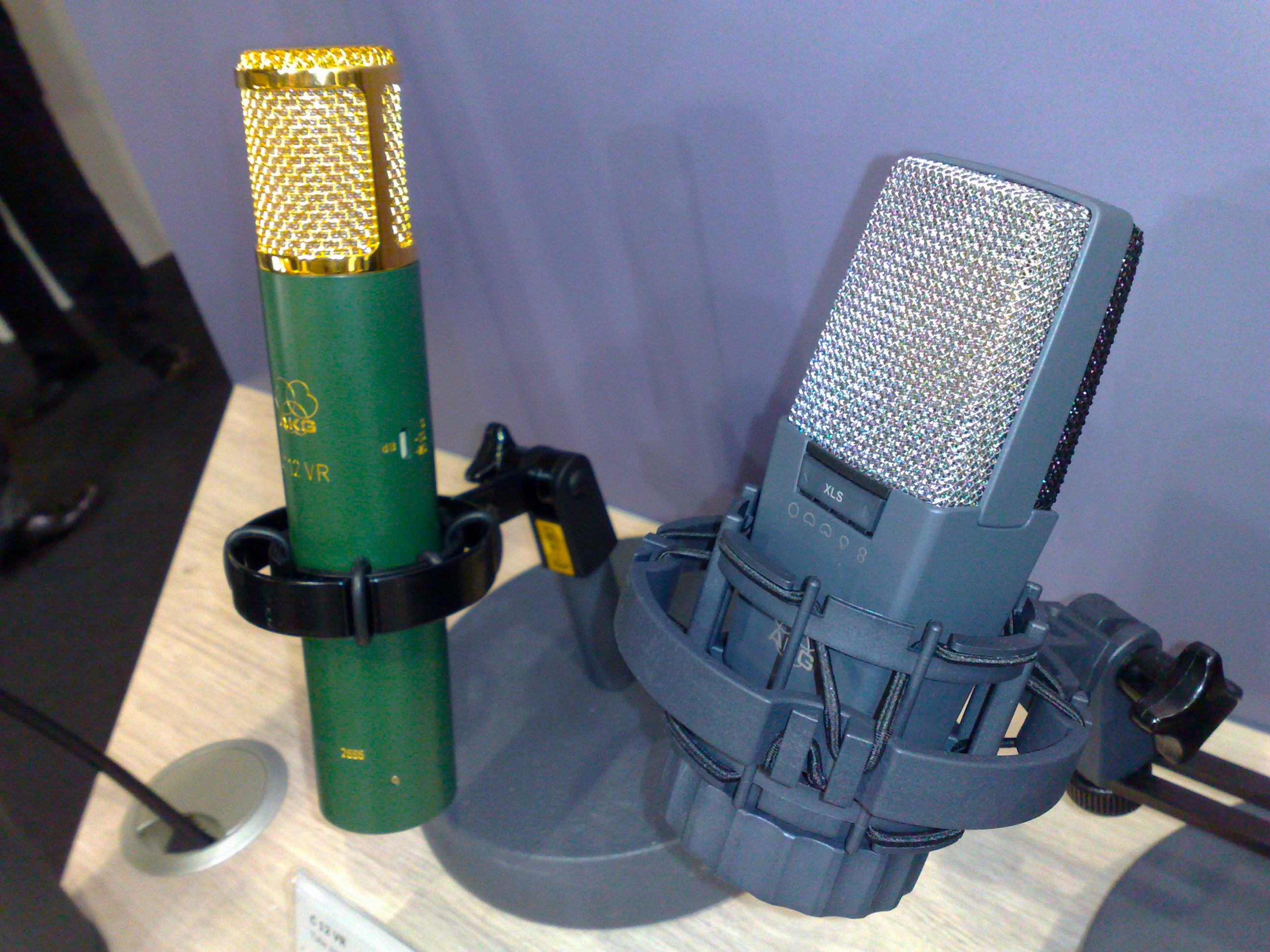 You keep seeing the 414, which of course is a very nice microphone.